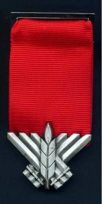 Itur ha oz